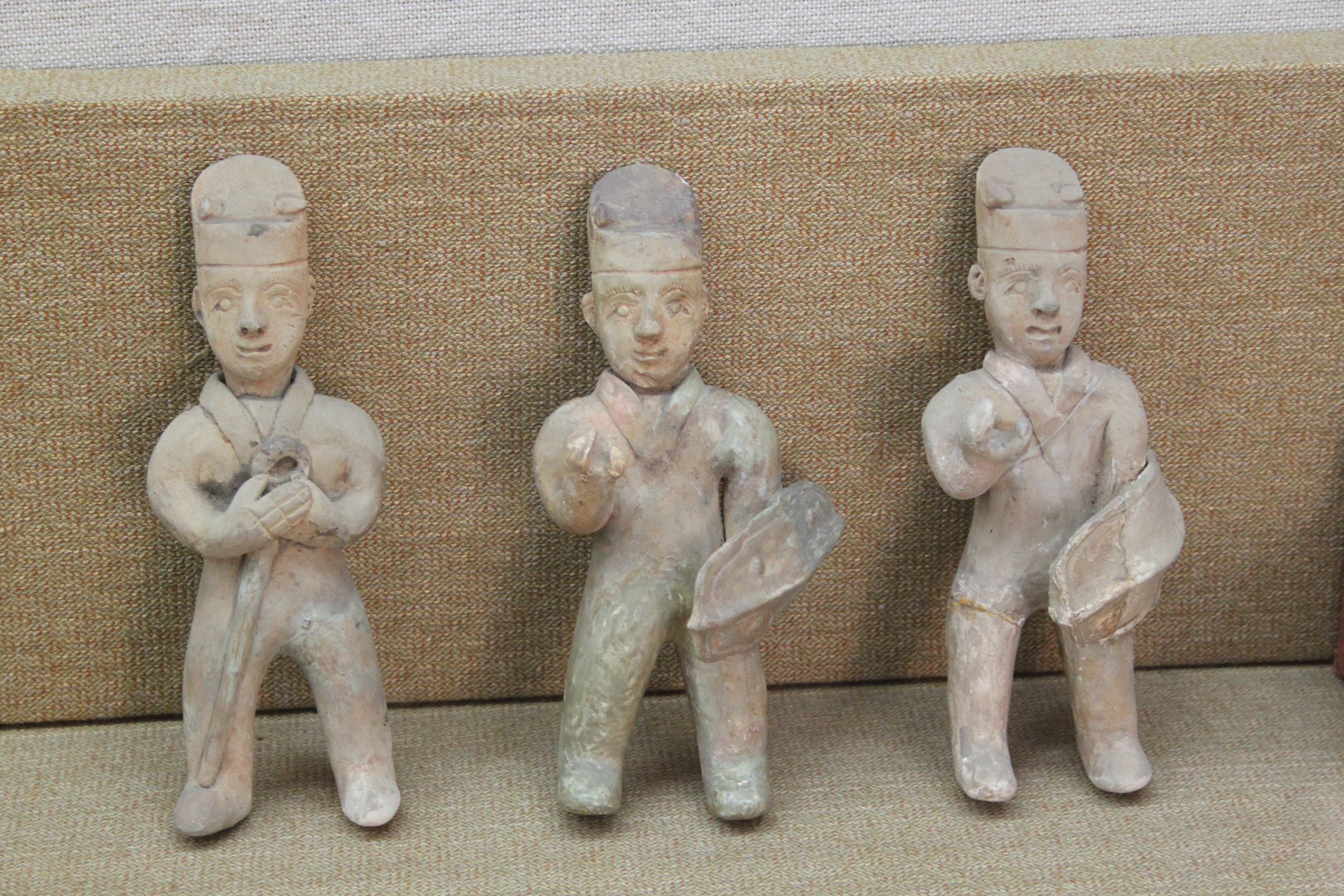 Western Jin Pottery Warriors